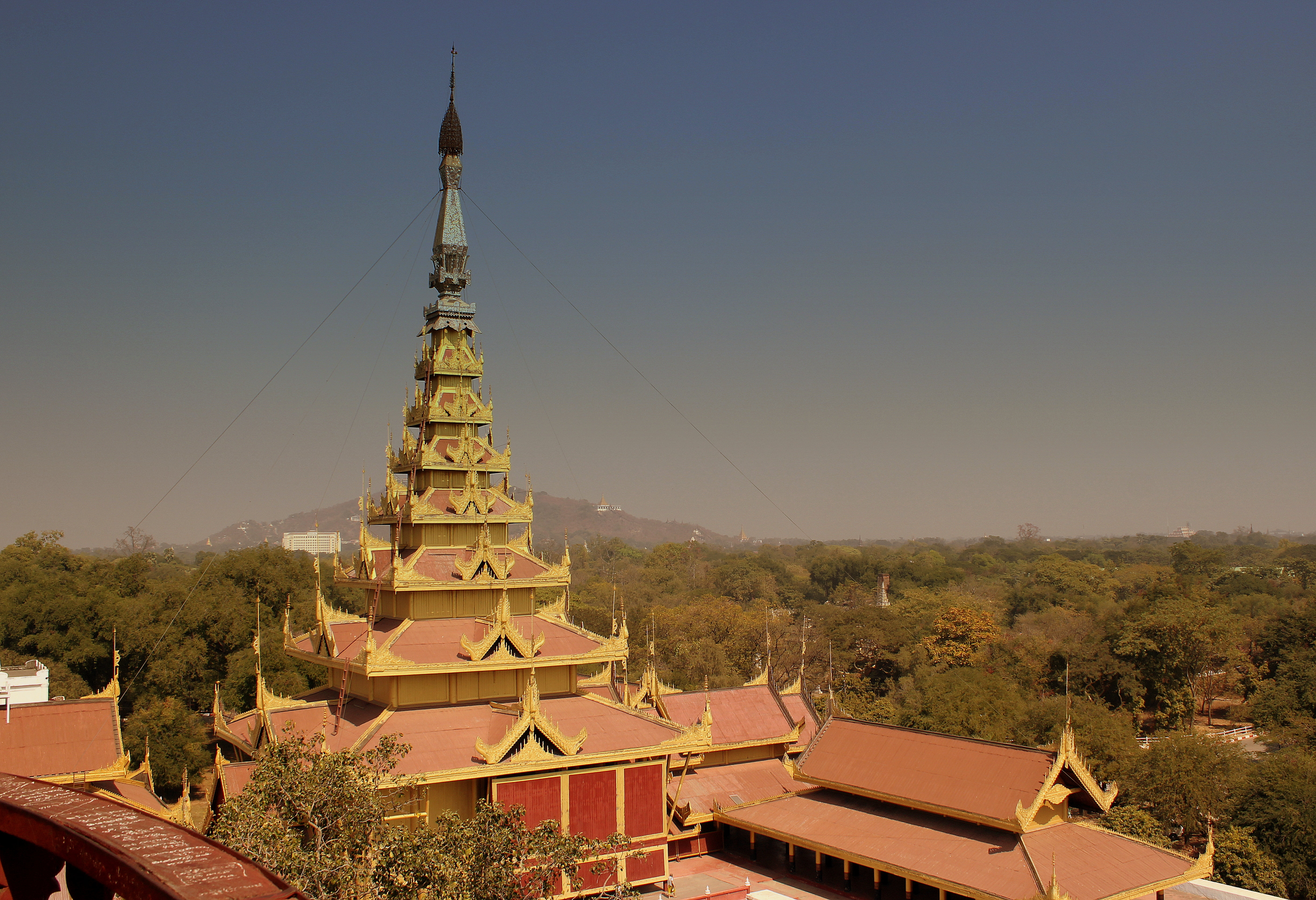 MANDALAY PALACE TEMPLES MYANMAR FEB 2013